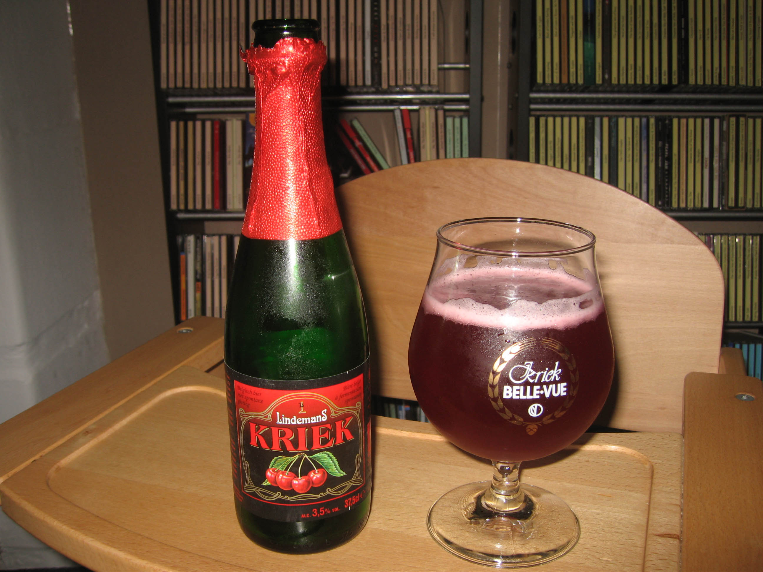 Geraadsbergen, Belgium - This is the place to be with friends who taught me to enjoy the Kriek....with the no. 1 fries.